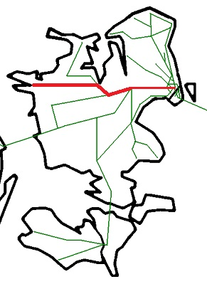 Map of railways on Zealand (Sjælland) in Denmark with the state railway Nordvestbanen between Copenhagen, Roskilde and Kalundborg in red.